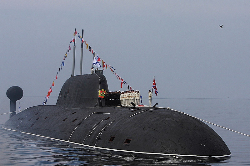 Kuzbass.